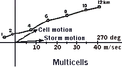 Typical hodograph of a multicellular cluster, a group of cells in different stages of development. It shows usually a "straight-line" (unidirectional) wind shear indicating speed and/or directional shear conducive for MCSs. The complex moves with the mean wind while individual cells move along the shear.